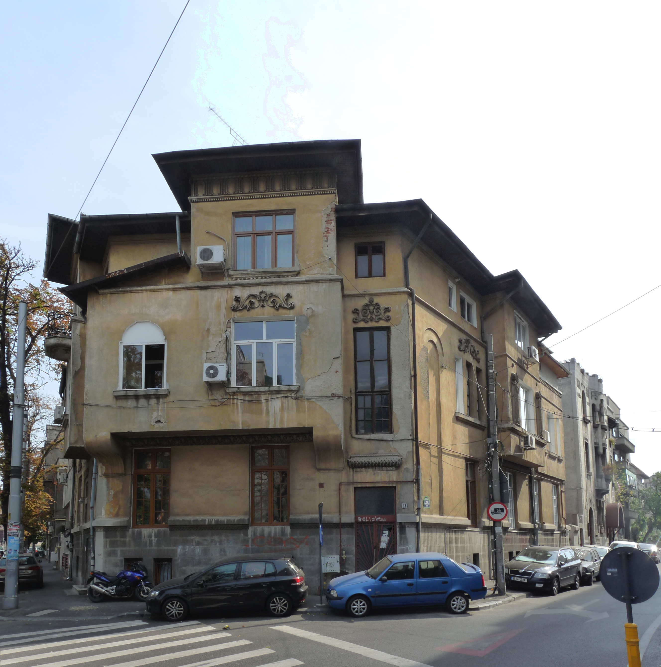 Historic building in Bucharest, Romania, at Alecu Russo street 11Română: Clădire istorică din București, România, în strada Alecu Russo, nr. 11